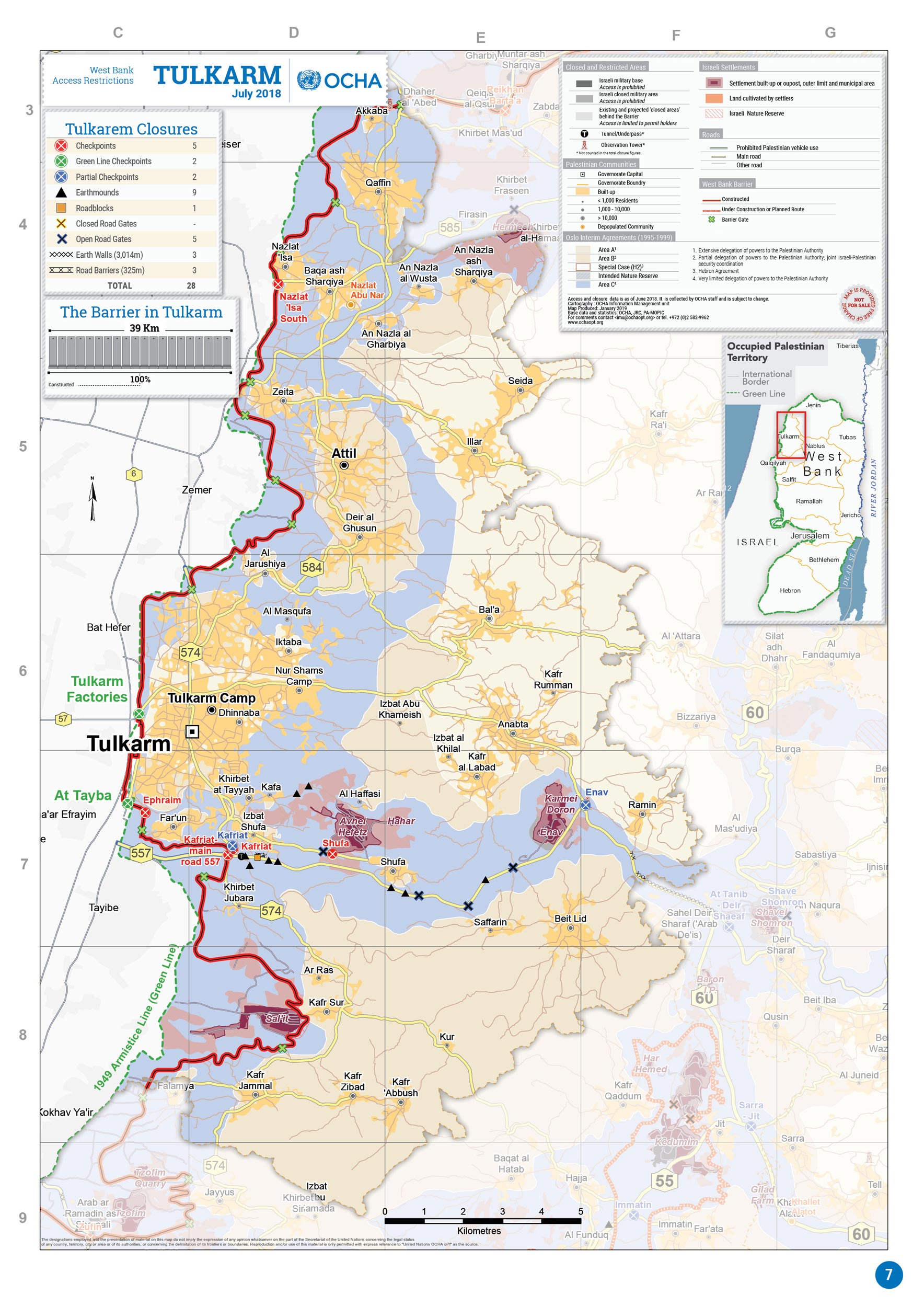 2018 OCHA OpT map